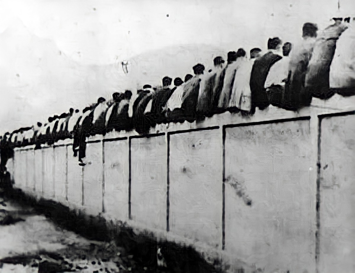 Los Culés at Barcelona's ground (1909-1922) el Camp de La Indústria